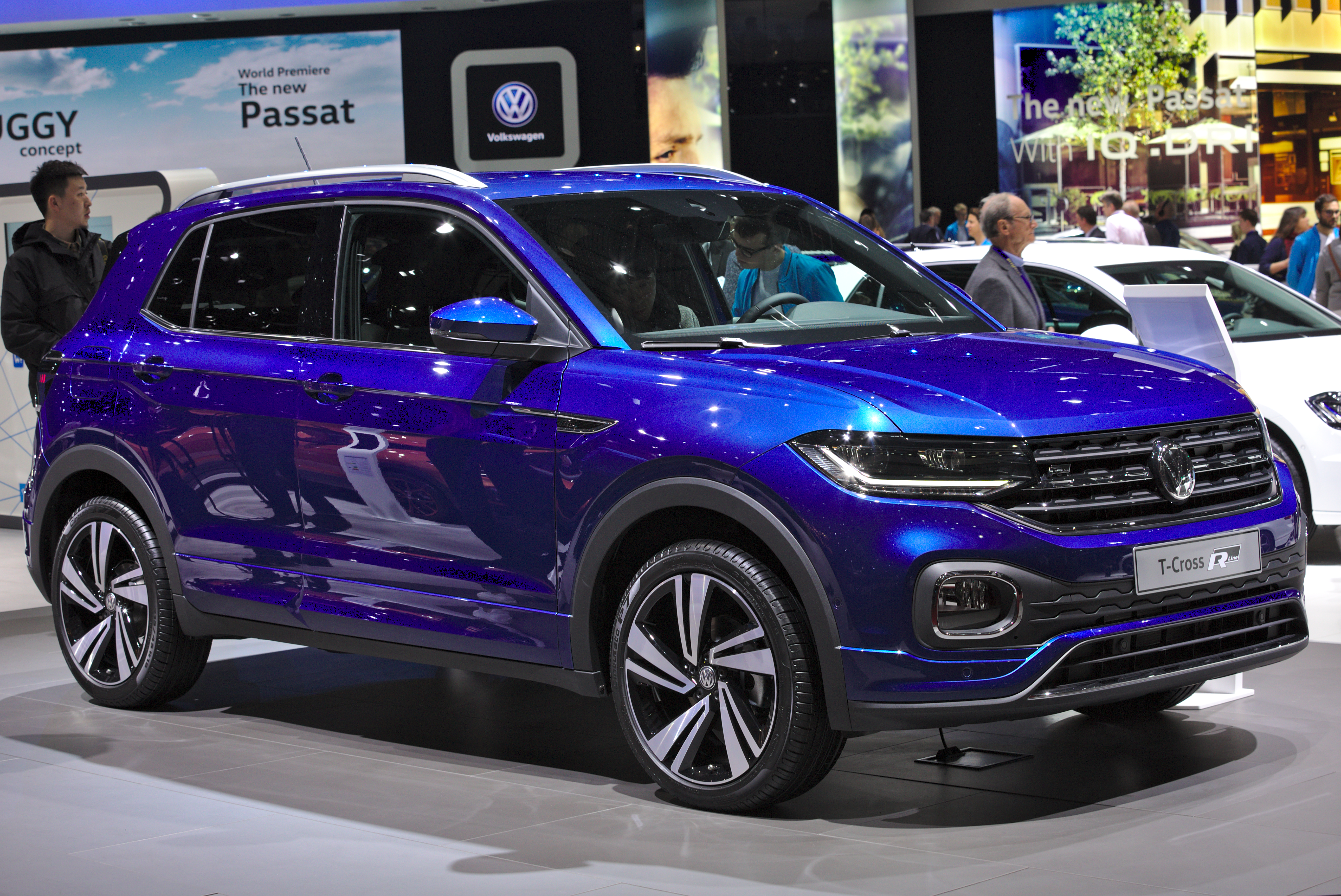 VW T-Cross R-Line at Geneva Motor Show 2019